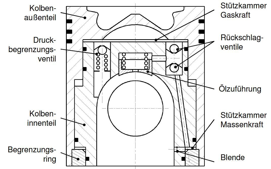 Design of a piston with variable compression height.